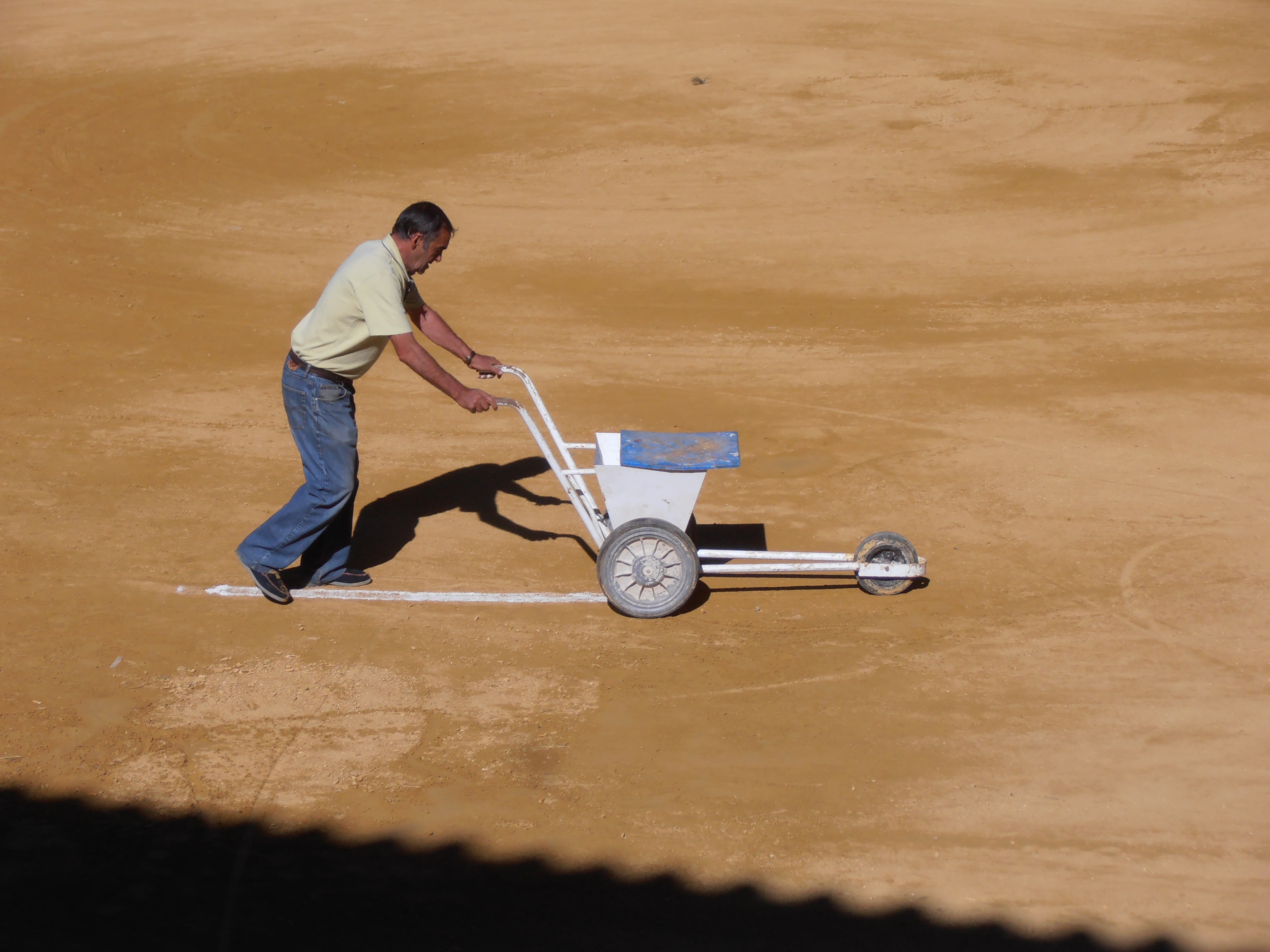 Since 1959 the bullfighting regulation establishes that in the ring the position of the picador must be marked and the bull for the cite in the third of rods, those marks are two concentric lines painted in the ring, sometimes in white color, sometimes in red according to Bullring.